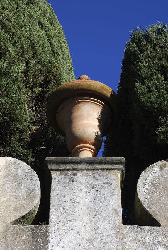 Villa Capponi, Florence, Italy. West Garden Wall. Volutes and Vase (symmetric).